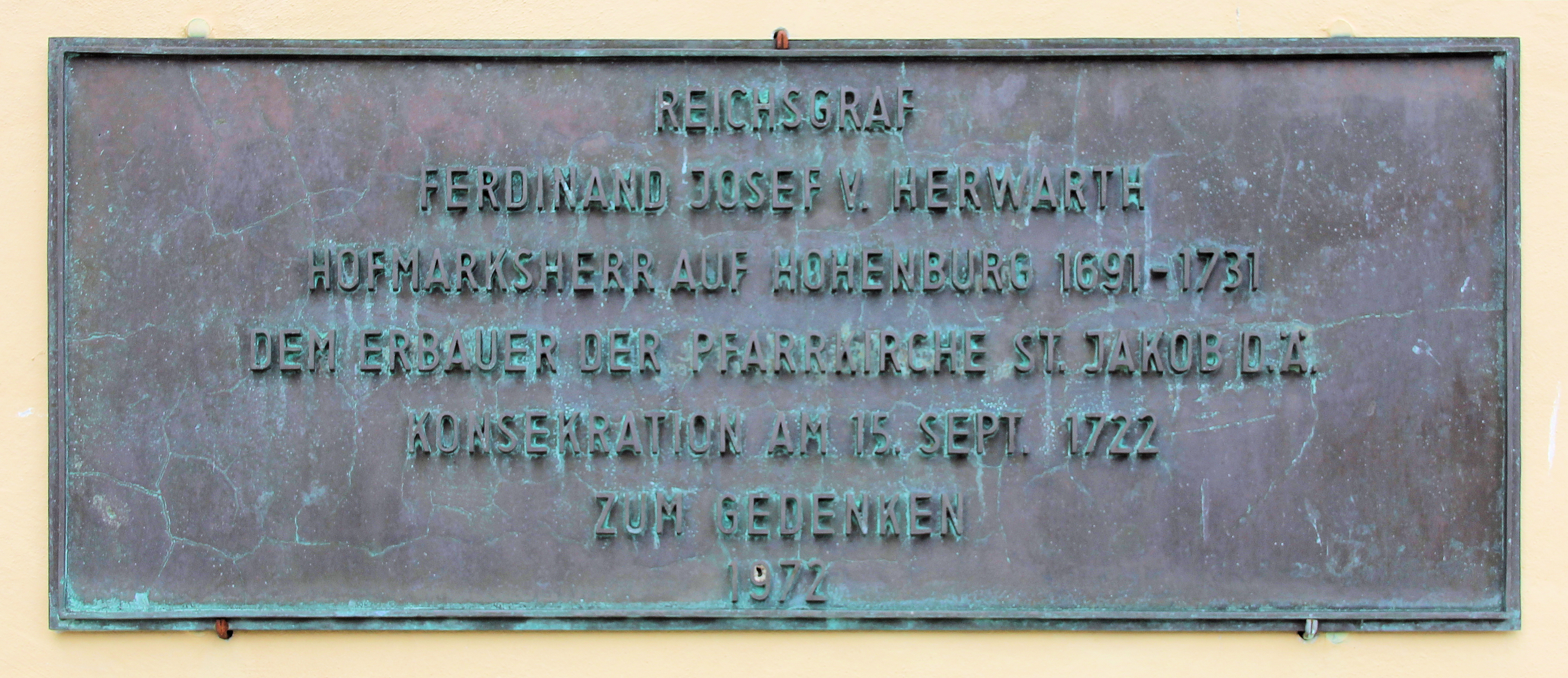 Memorial plaque, Ferdinand Joseph von Herwarth, Marktstraße 15, Lenggries, Germany